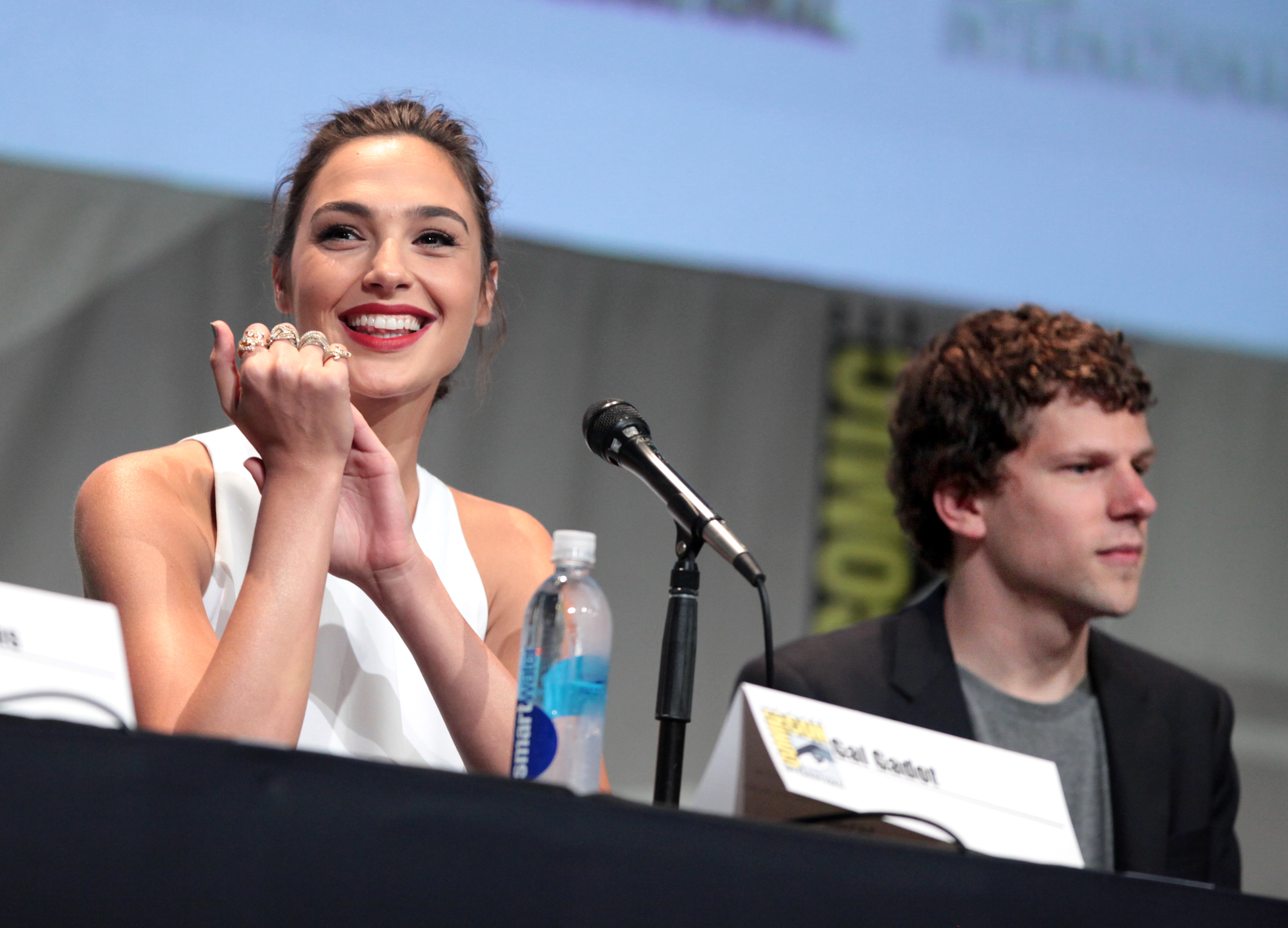 Gal Gadot and Jesse Eisenberg speaking at the 2015 San Diego Comic Con International, for "Batman v Superman: Dawn of Justice", at the San Diego Convention Center in San Diego, California.